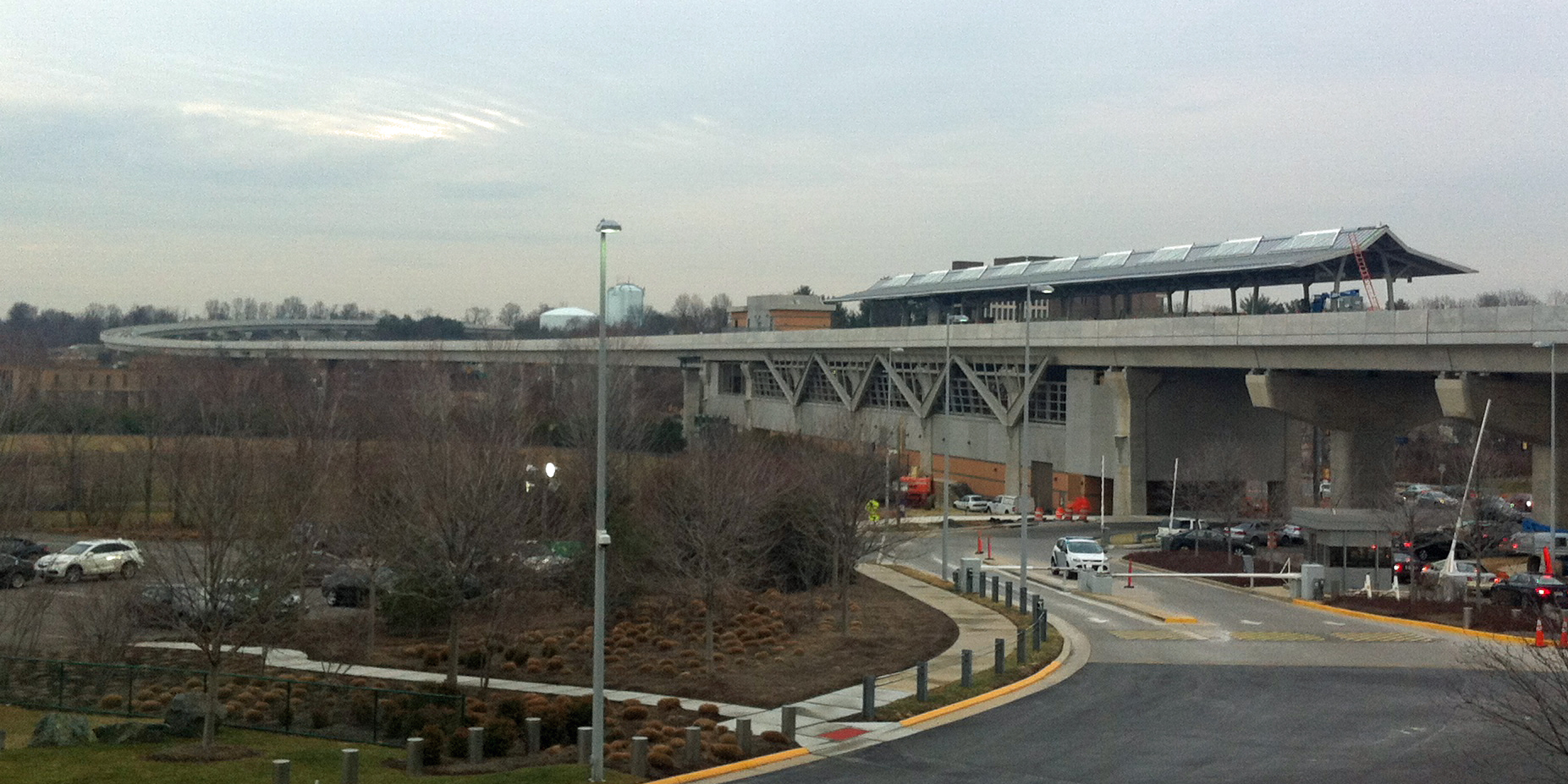 View of McLean WMATA Metro Rail station in construction, seen from the northwest. Station building in the foreground, with tracks extending eastbound in the background.